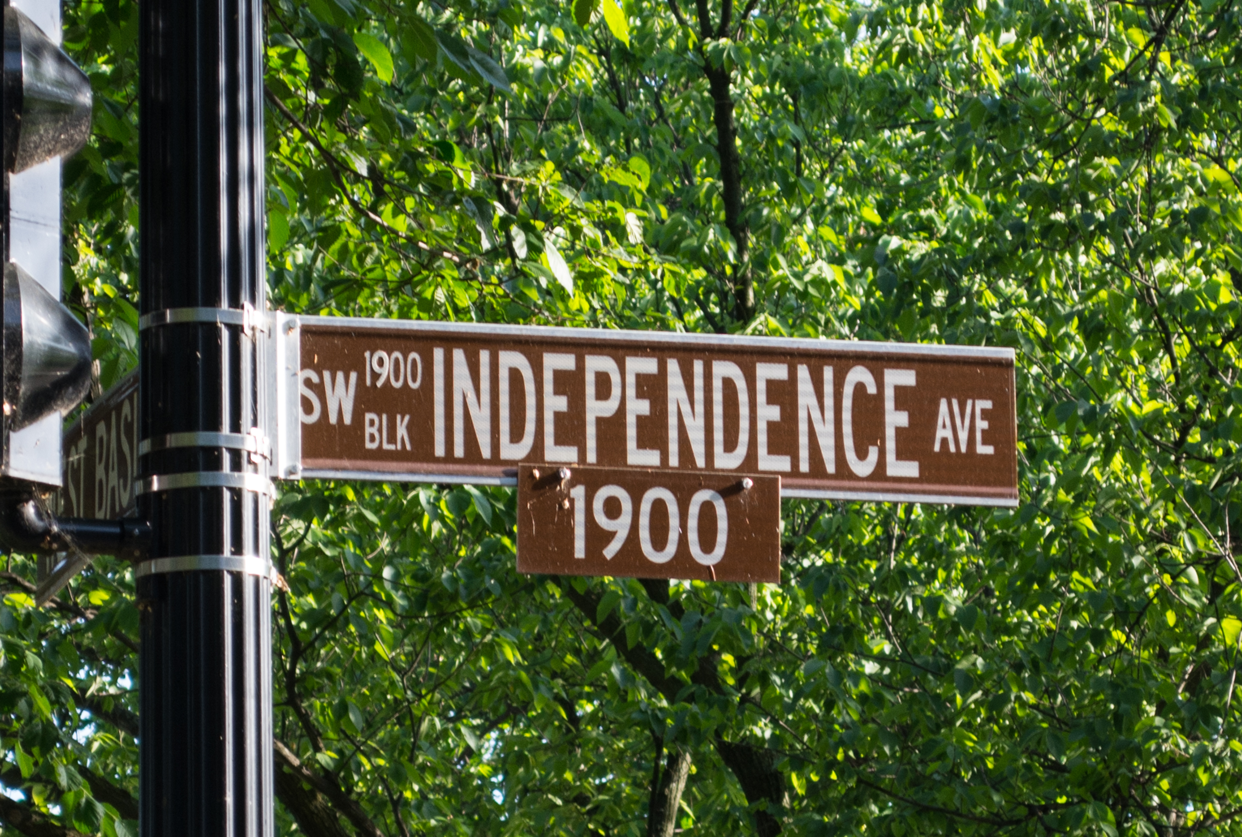 A street sign on the 1900 block of Independence Avenue SW in Washington, D.C., in the United States.